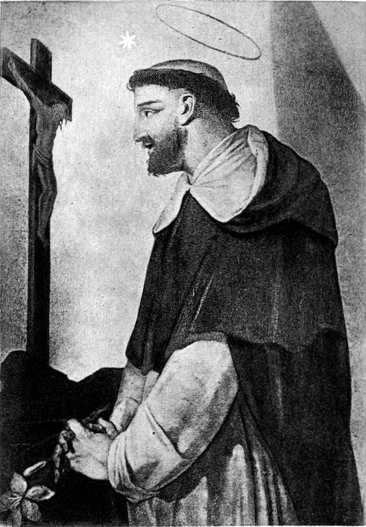 Saint Dominic